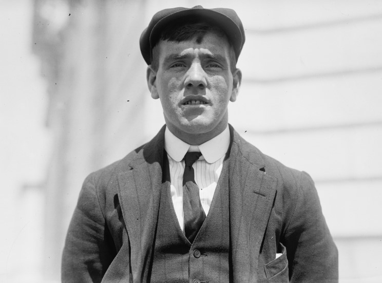 British sailor and lookout of the RMS Titanic Frederick Fleet at the age of 24.